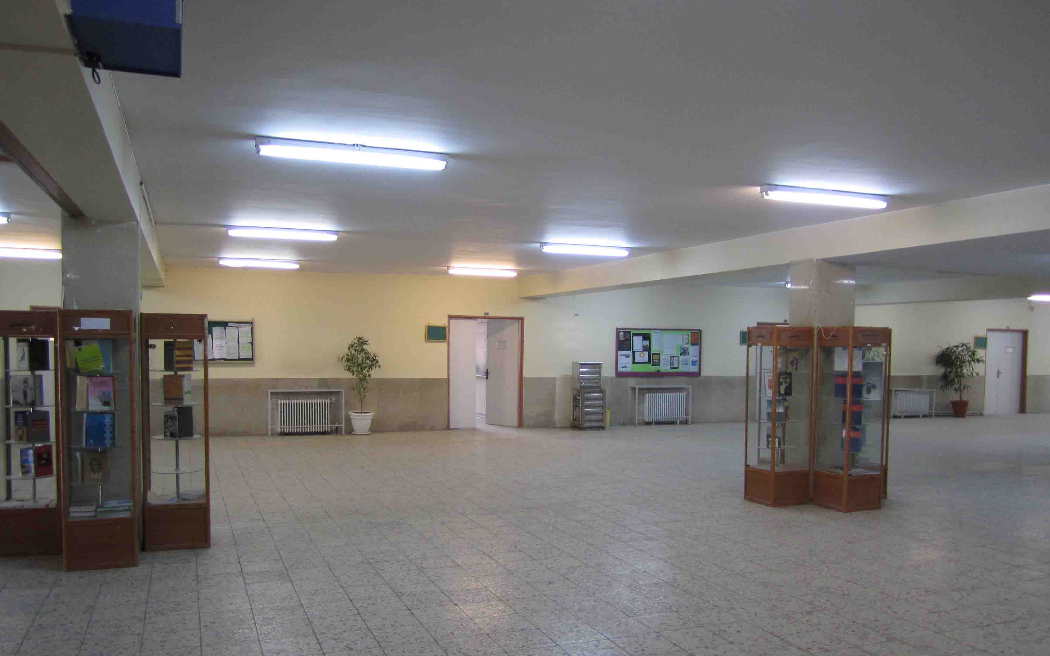 سالن همکف دانشکده ادبیات و علوم انسانی دانشگاه شهید بهشتی